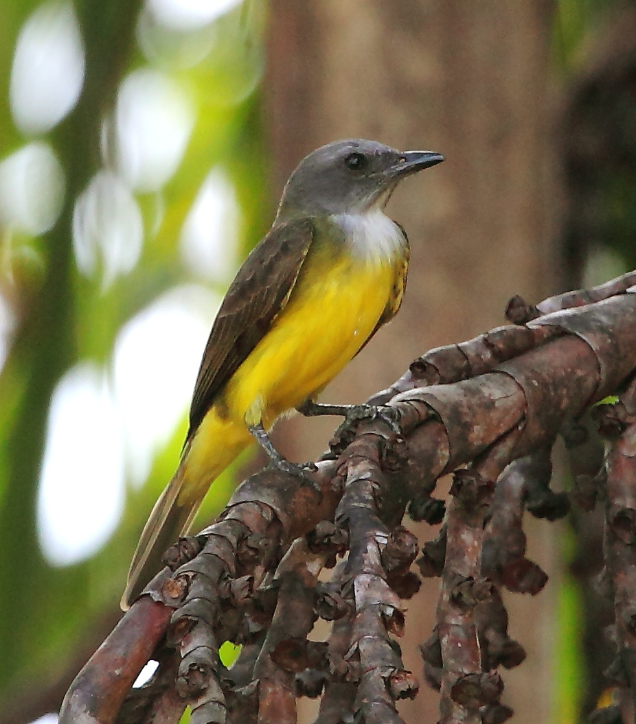 Sulphury Flycatcher at Manaus - AM -Brazil